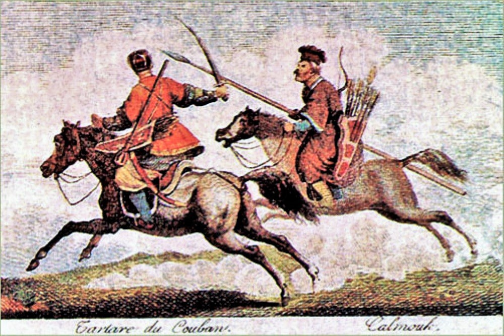 Kuban tatar and Kalmyk